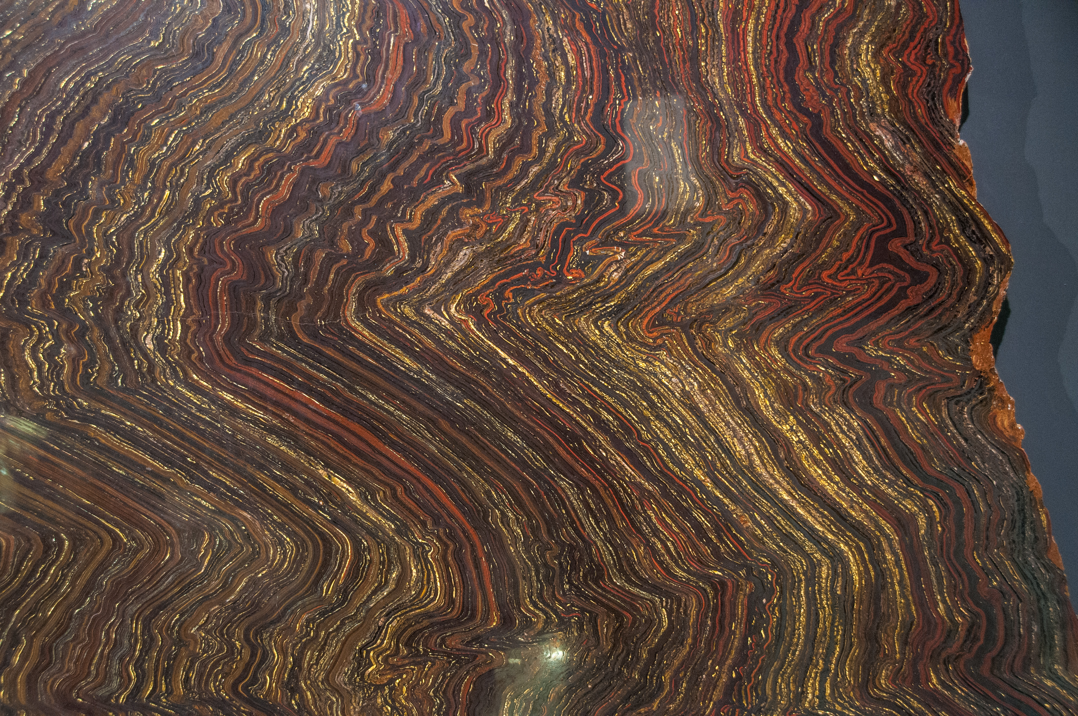 Jasperlite iron formation, polished slab. Old Ridley Ranges, Pilbara WA